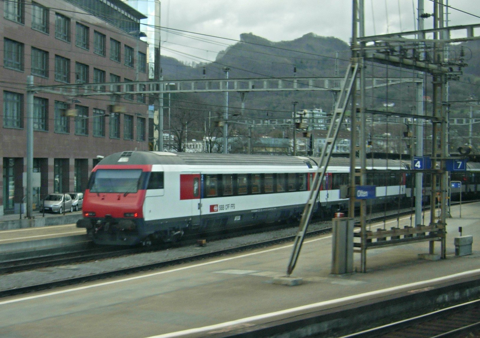 A Steuerwagen (Control car) of the type Bt IC, as normally used on modern SBB trains, at the Olten station.